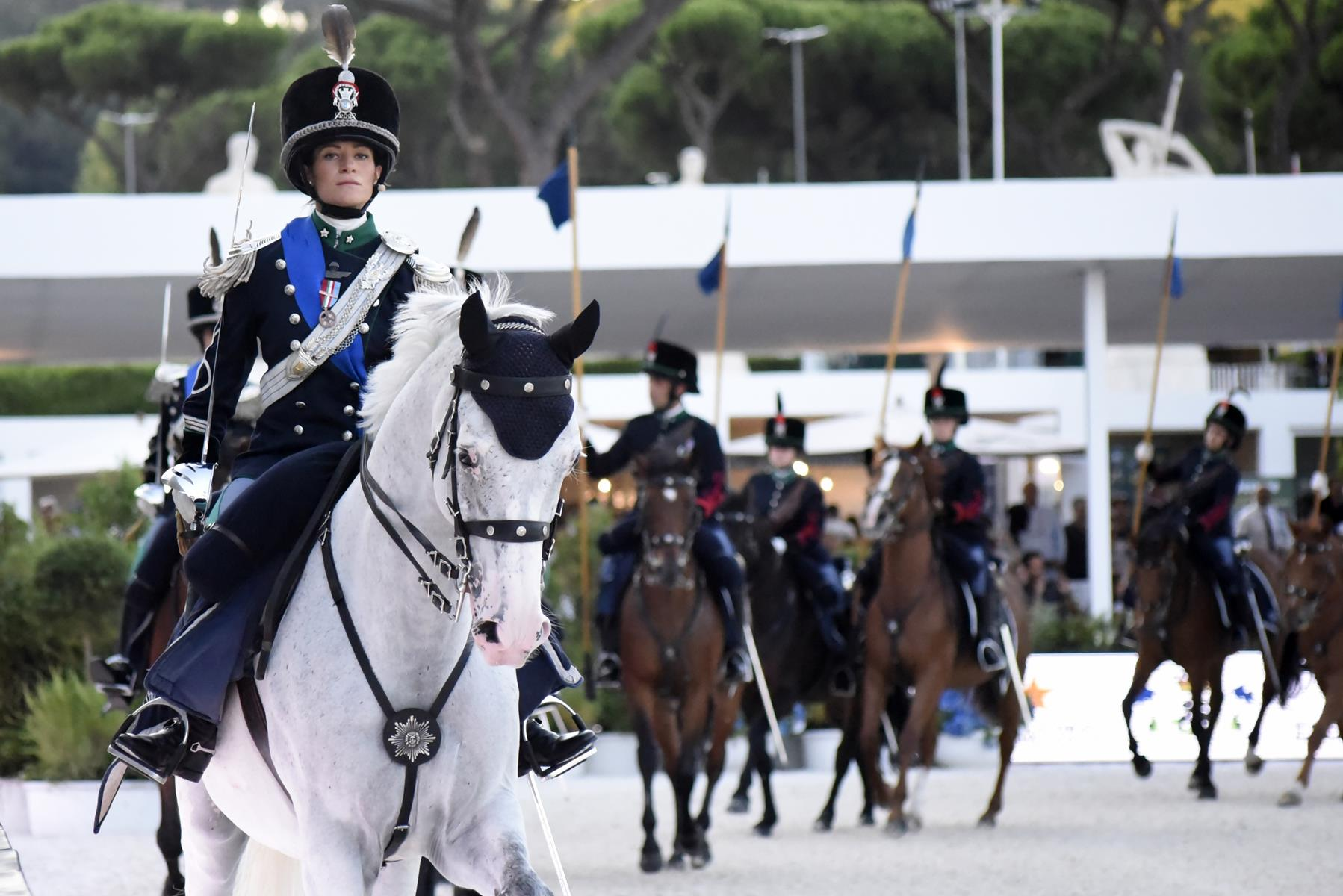 Italian Army - A mounted troop of the "Lancieri di Montebello" Regiment (8th) in Rome 2019